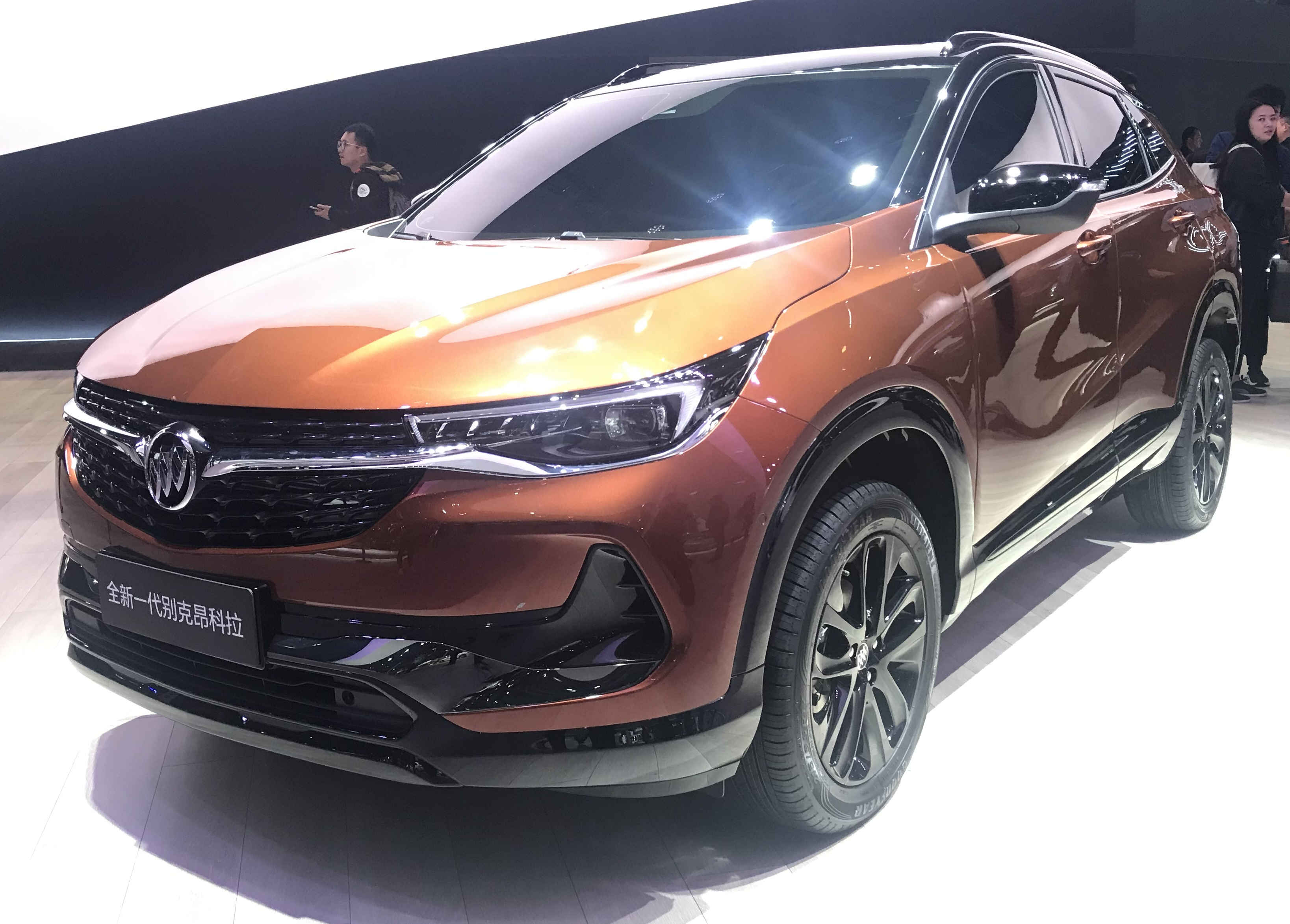 Second generation Buick Encore